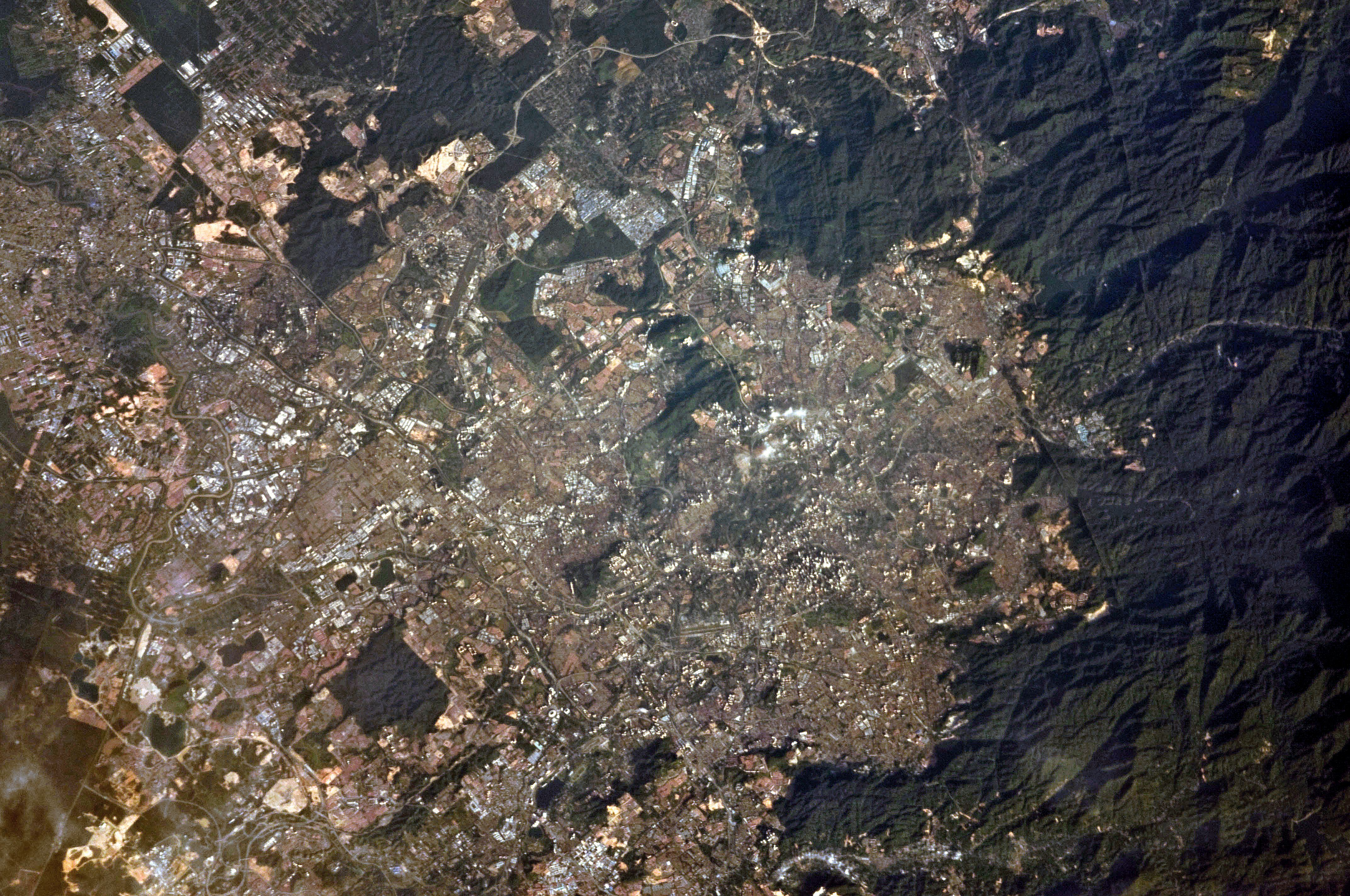 Astronaut Photo of Kuala Lumpur, Malaysia taken from the International Space Station (ISS) during Expedition 23 on March 27, 2010.